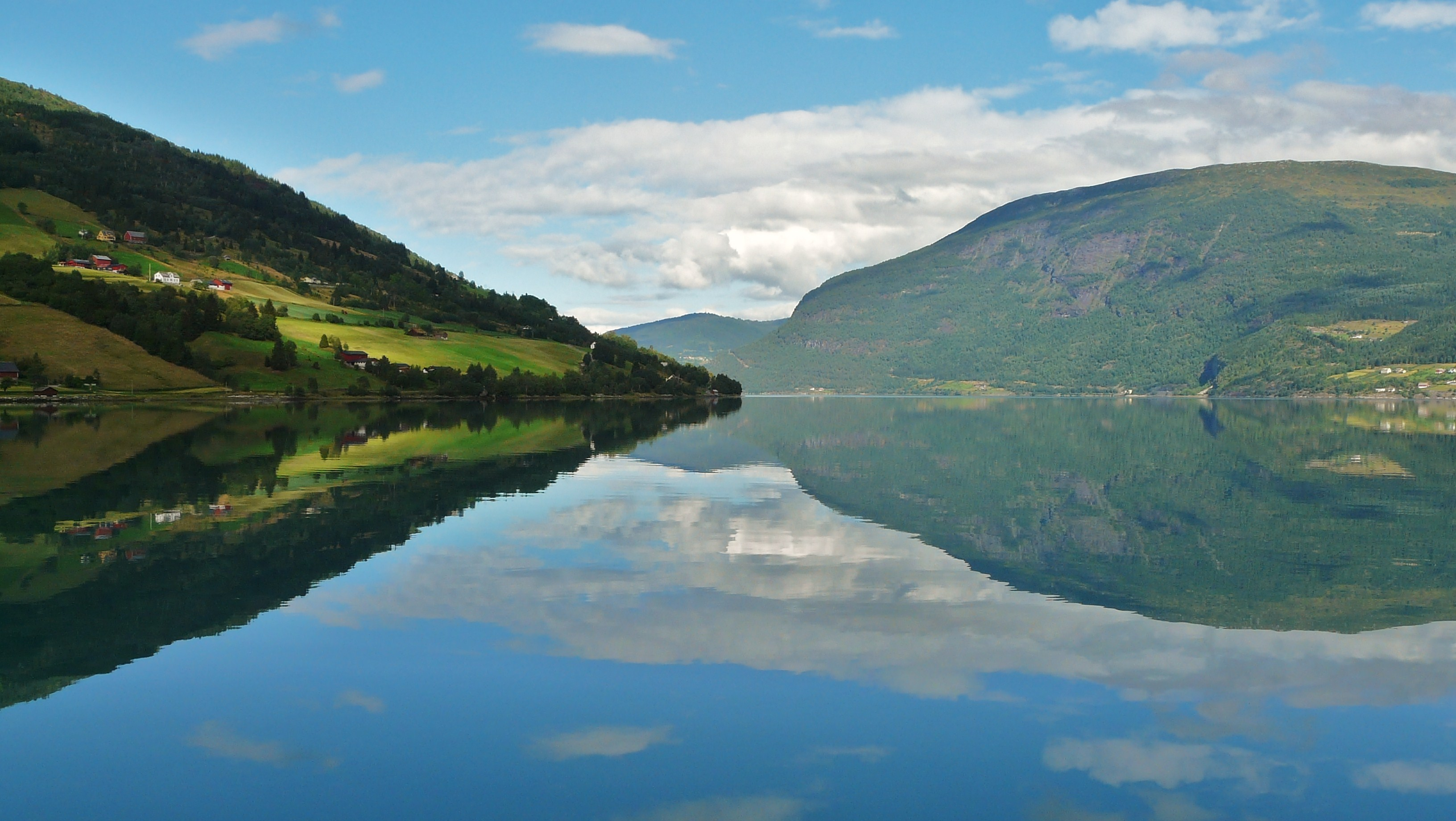 A view to Oldebukta and Nordfjorden from the east coast of Oldebukta in 2008 August.